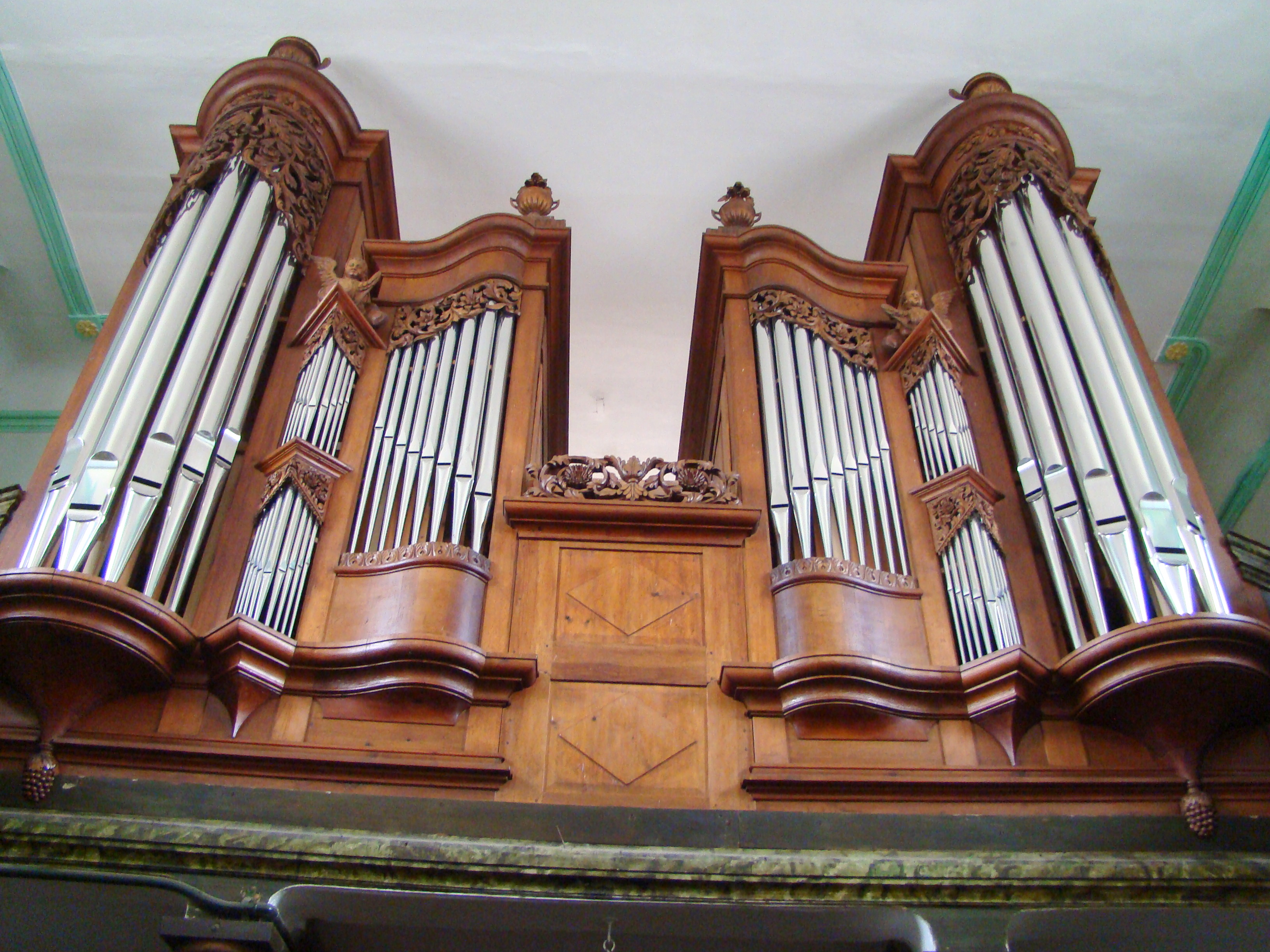 Lutheran church in Seleuș (Daneș), Mureș county, Romania